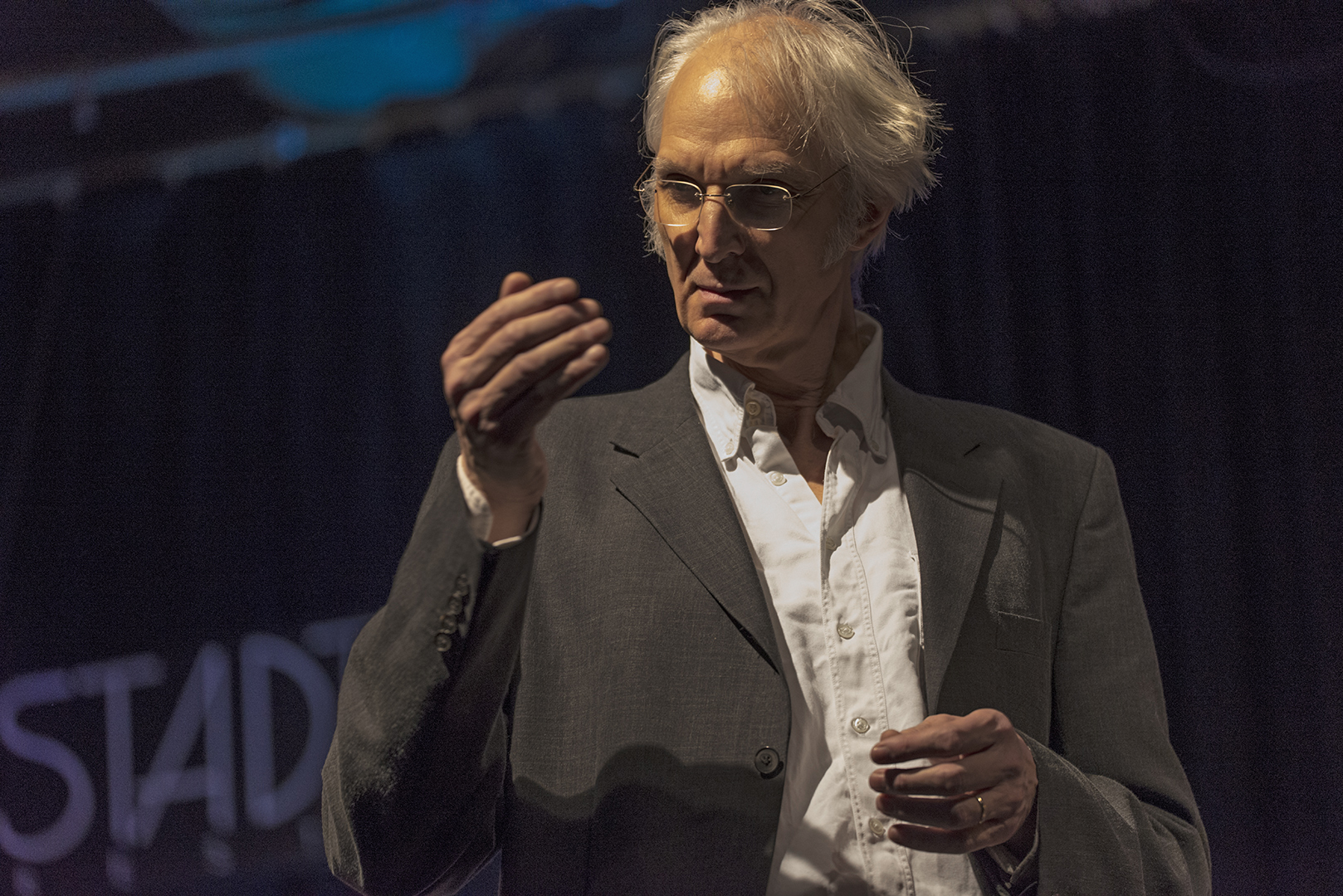 german jazz musician and composer Norbert Stein, Cologne